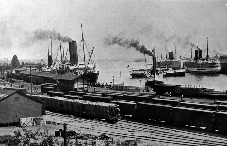 View of L.A. Harbor in 1913.